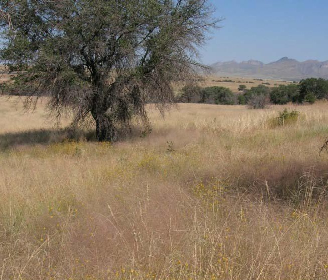 Eragrostis intermedia (the grass) in Arizona.